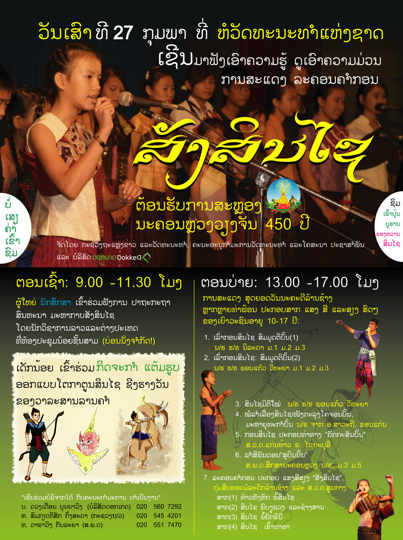 This flyer contains information about all the events that happened on Sinxay Day